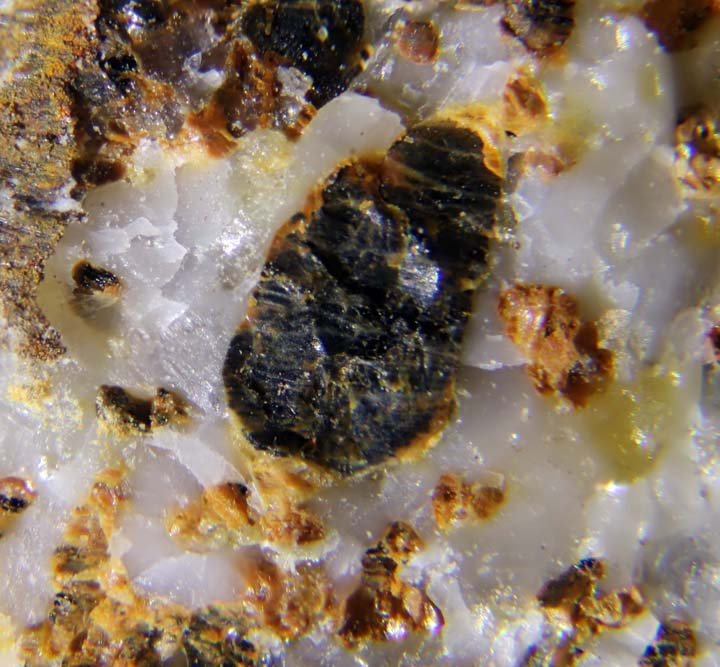 Black crystals of the rare mineral azoproite from the type and only one of the two known localities worldwide: Tazheranskii Massif, Lake Baikal, Irkutskaya Oblast', Prebaikalia, Eastern Siberia, Russian Federation. Azoproite is a magnesium borate.